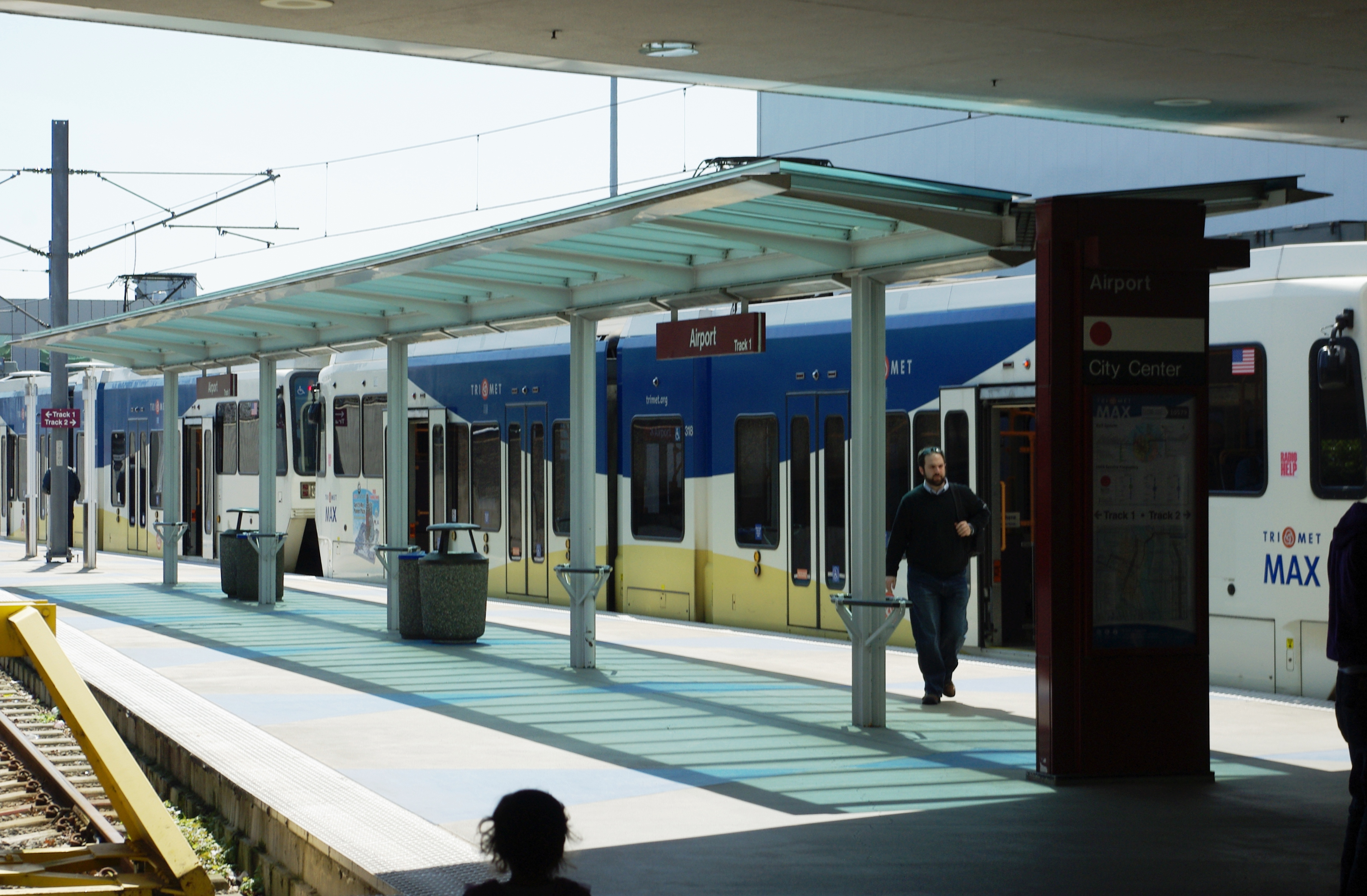 Airport MAX station at Portland International Airport in Portland, Oregon.